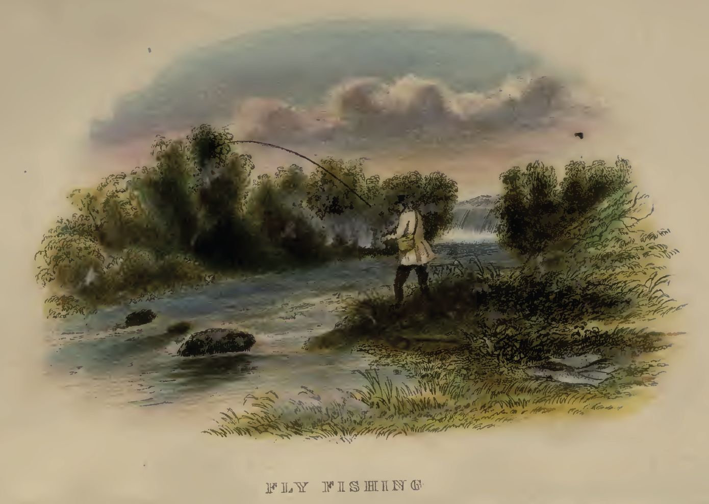 Frontpiece from Blacker's Art of Fly Making, William Blacker, 1855